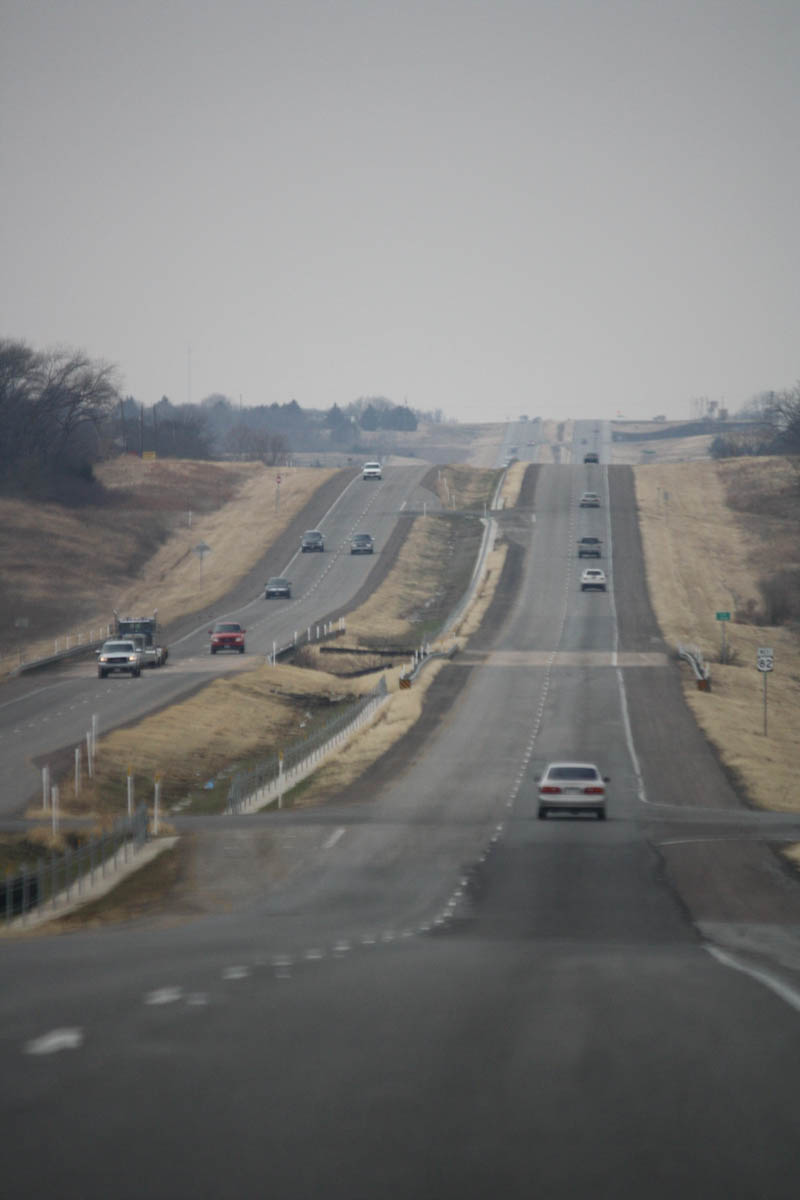 Heading west on US82 out of Sherman towards Gainesville on a rather cloudy morning